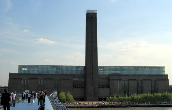 Tate Modern, London, from the Millennium Bridge.